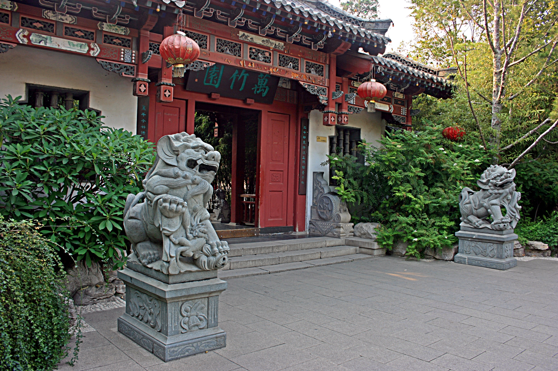 Photograph of the entrance to the 10000 Bamboo Garden in Baotu Spring Park, Jinan, Shandong, , China.